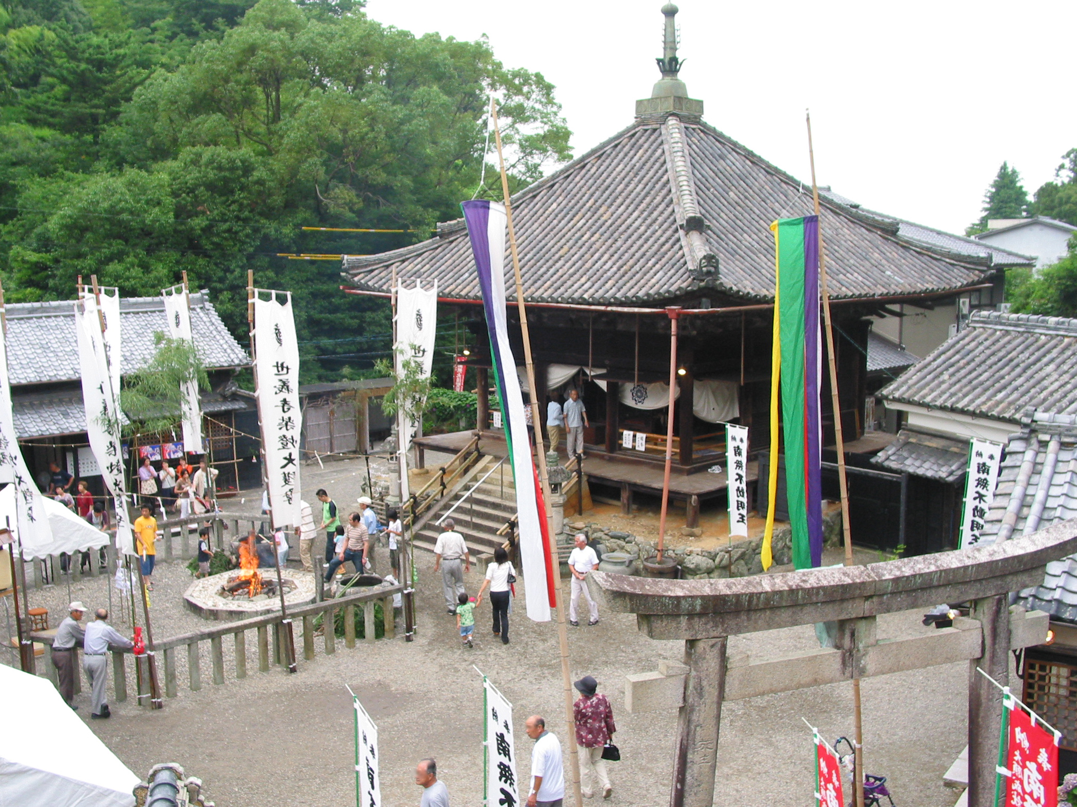 Gomadō of Segidera (Shingon BuddhistTemple) 真言宗醍醐派教王山世義寺の護摩堂 三重県伊勢市岡本で撮影